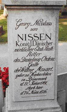 tombstone of Georg Nicolaus Nissen